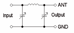 the pi match used as a 'ATU' in radio equipment